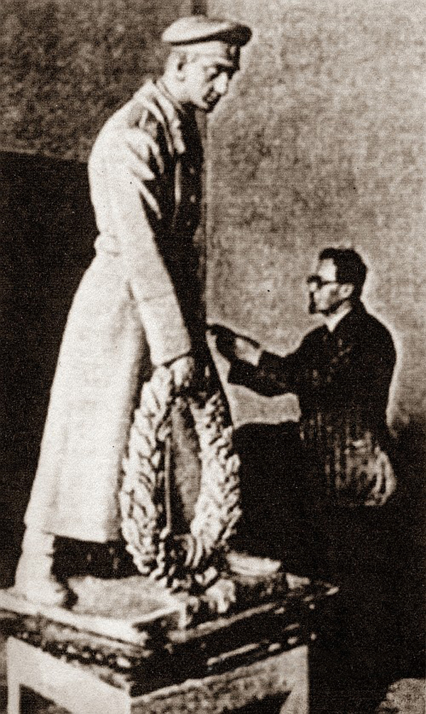 Monument of the Bulgarian jews - soldiers in the Bulgarian armies during the Balkan Wars